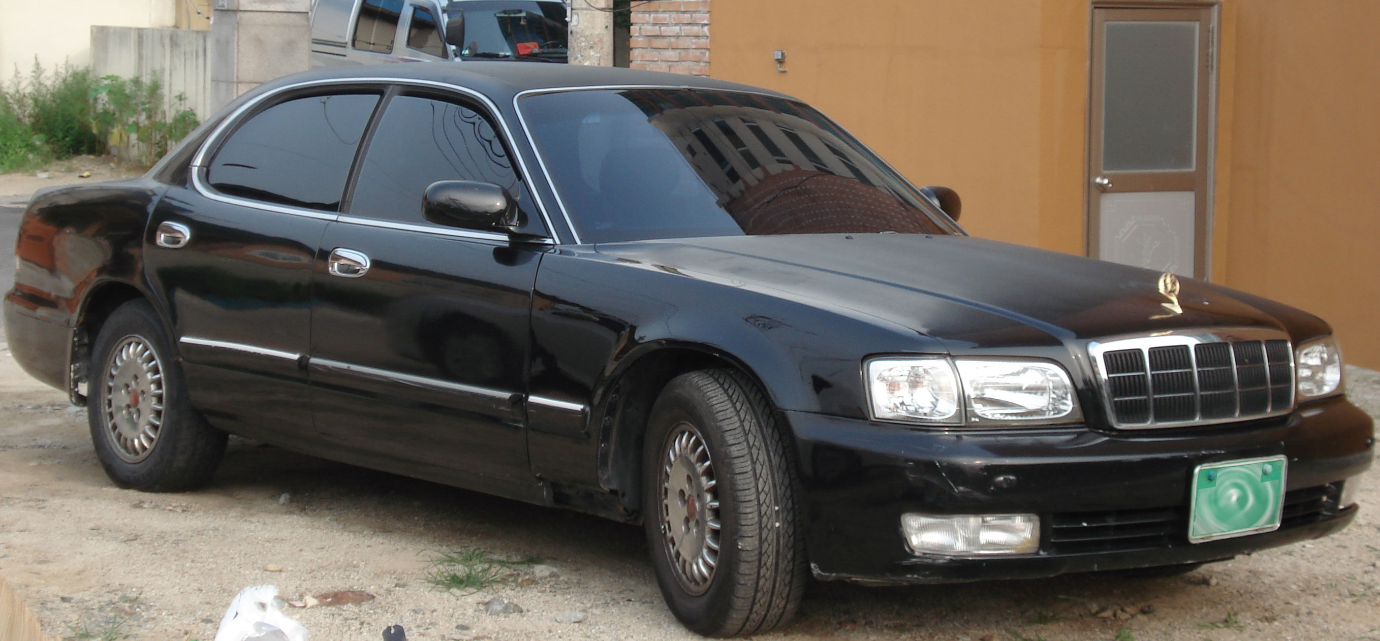 Kia Enterprise